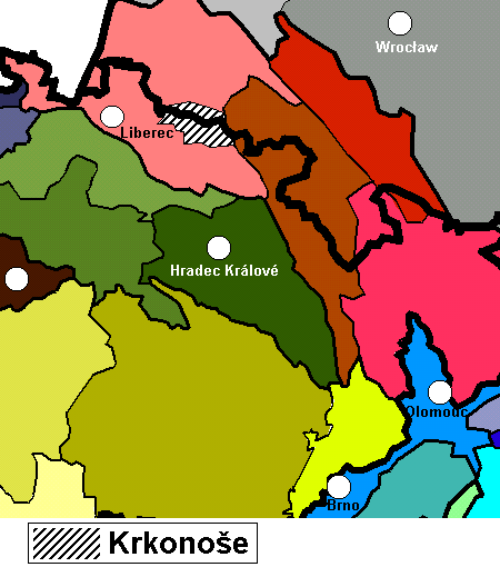 Krkonose location map